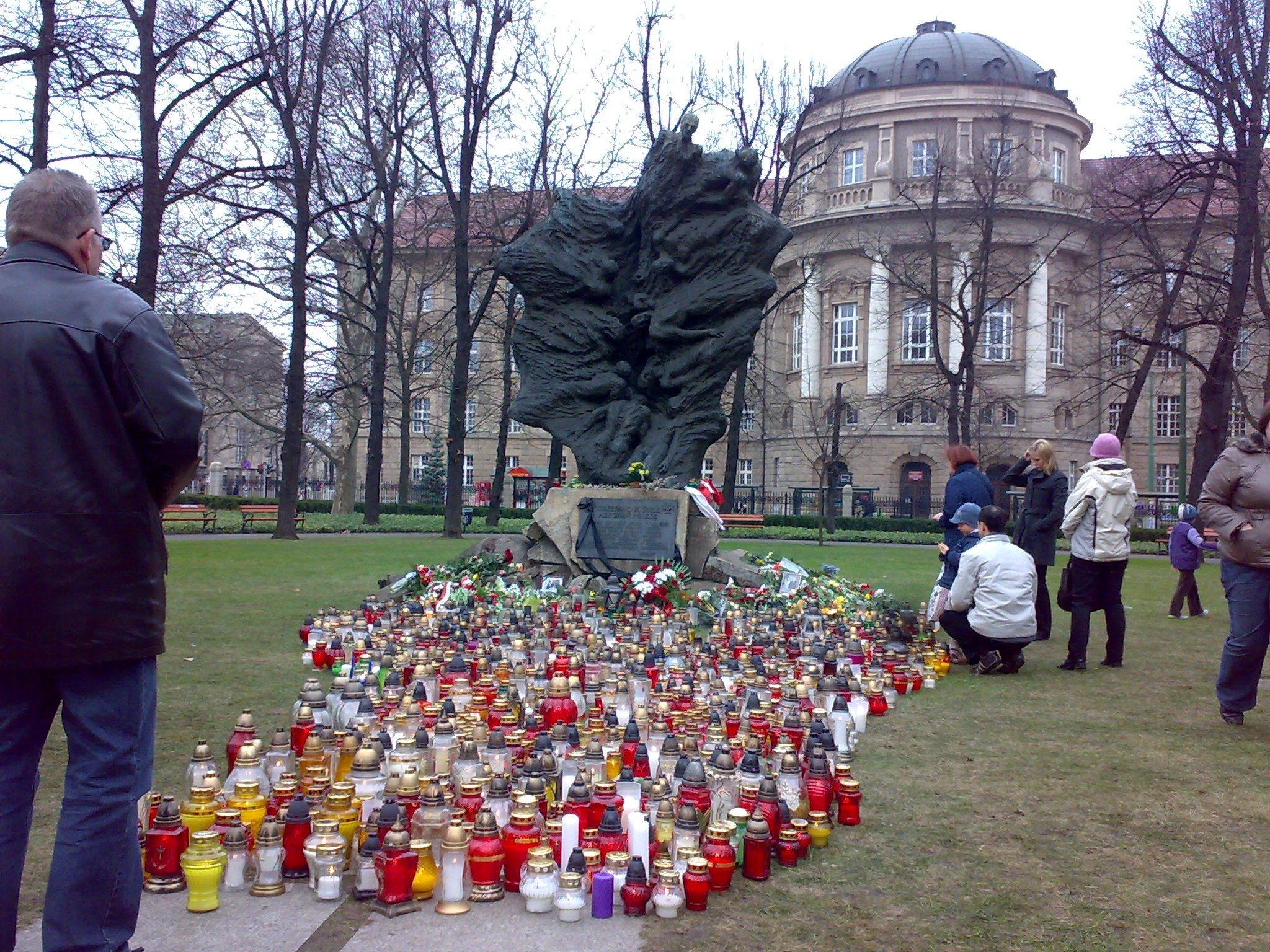 Katyn Monument in Poznan, post Smolensk Catastrophy. 4.2010.